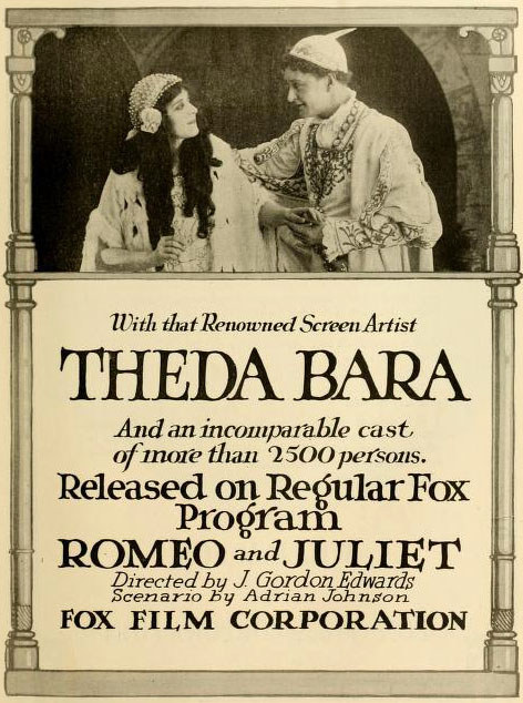 Advertisement in Moving Picture World for the film Romeo and Juliet (1916).